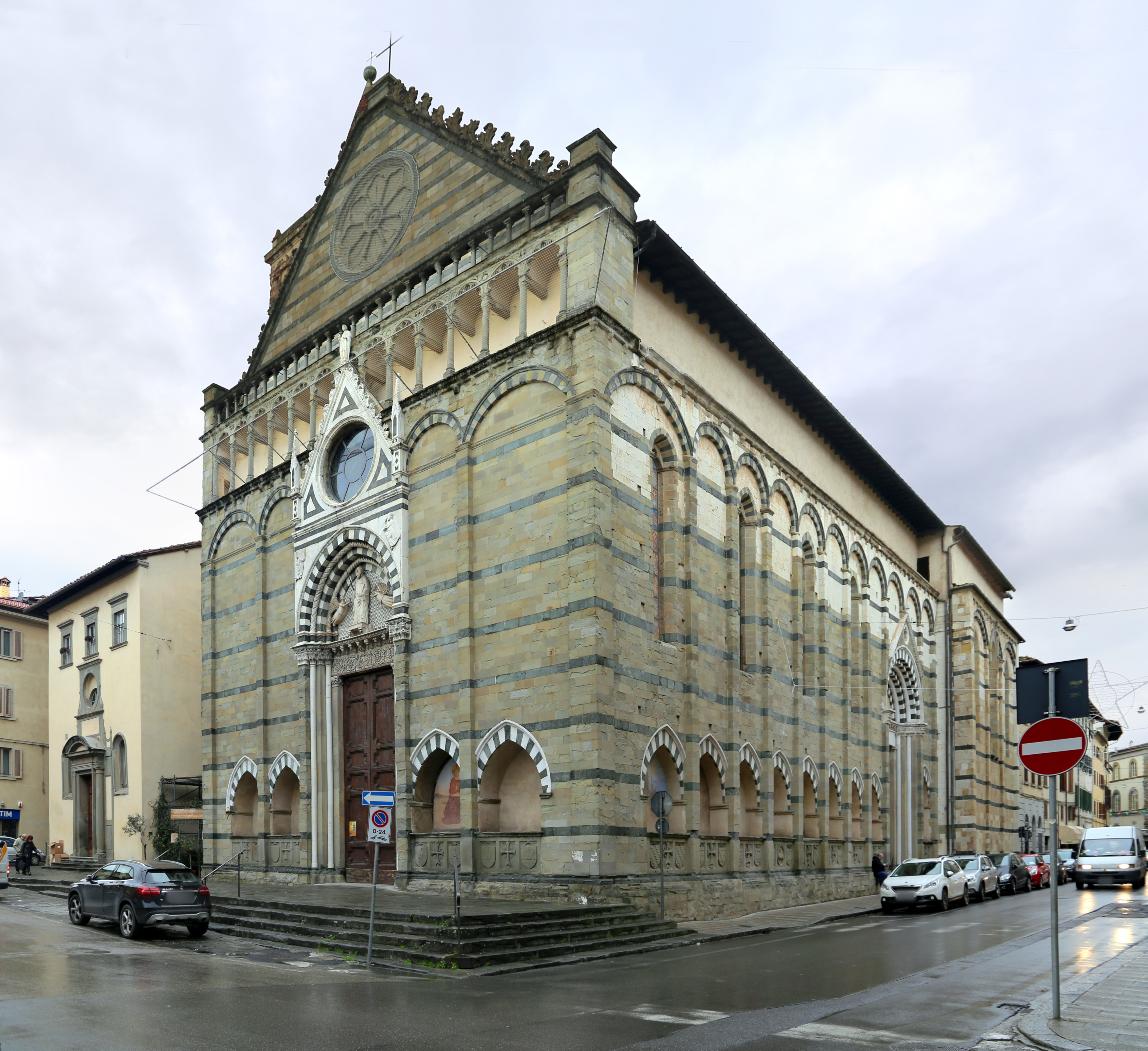 San Paolo (Pistoia)